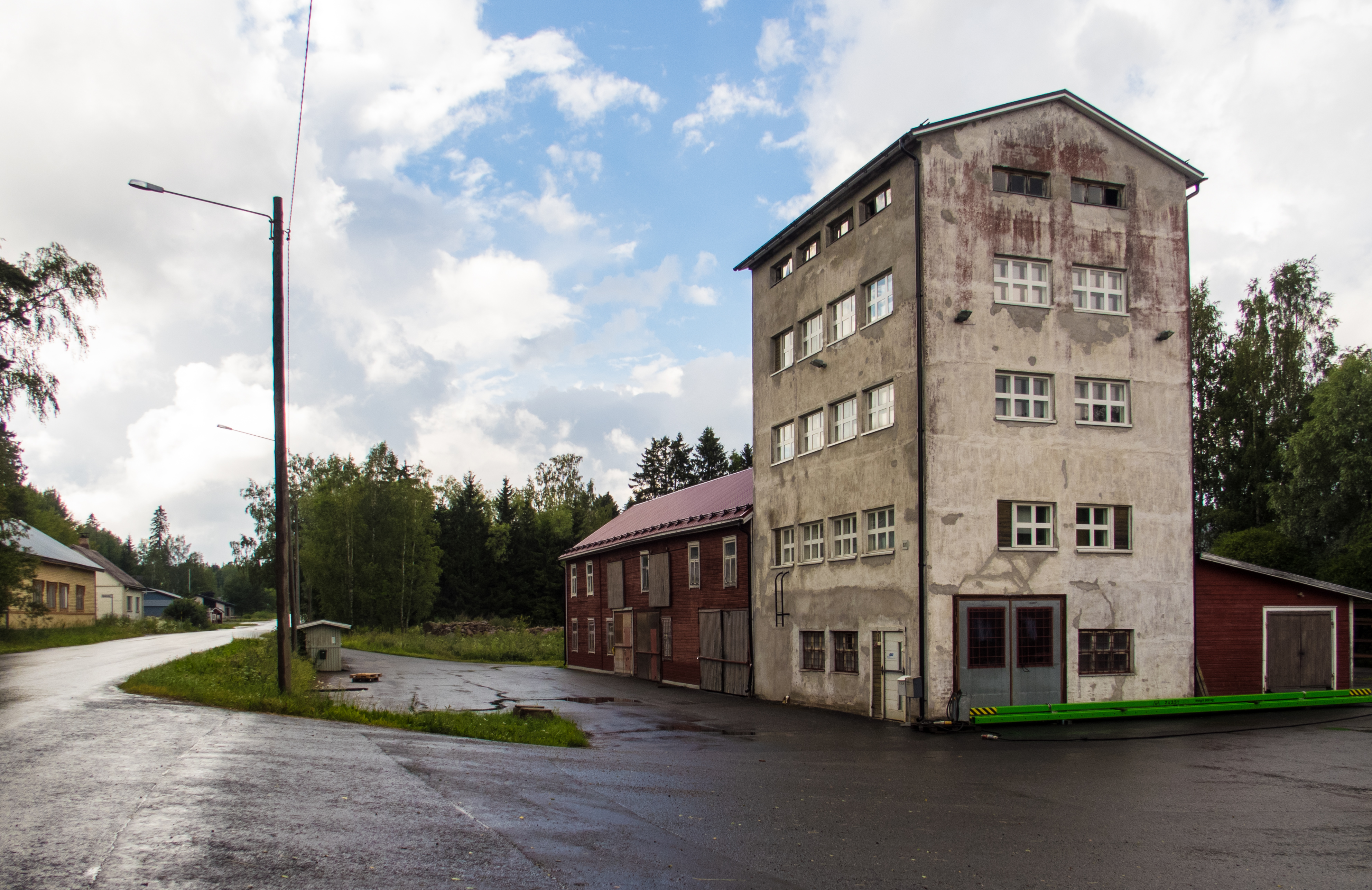 View from Matku village, Forssa, formerly part of Koijärvi community, Finland.